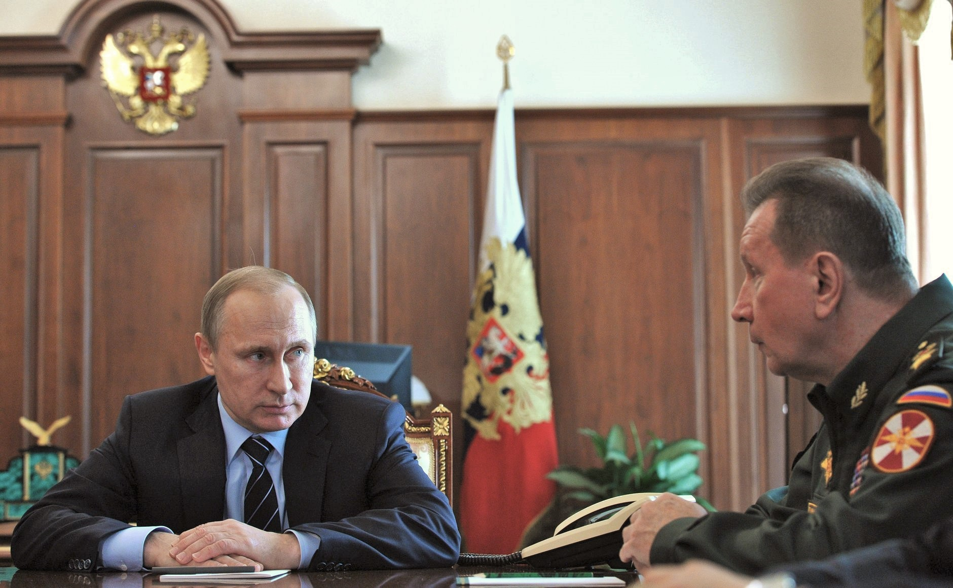 Vladimir Putin announces the creation of the National Guard on the basis of the Interior Ministry Troops. On the right: Interior Ministry Troops Commander Viktor Zolotov.